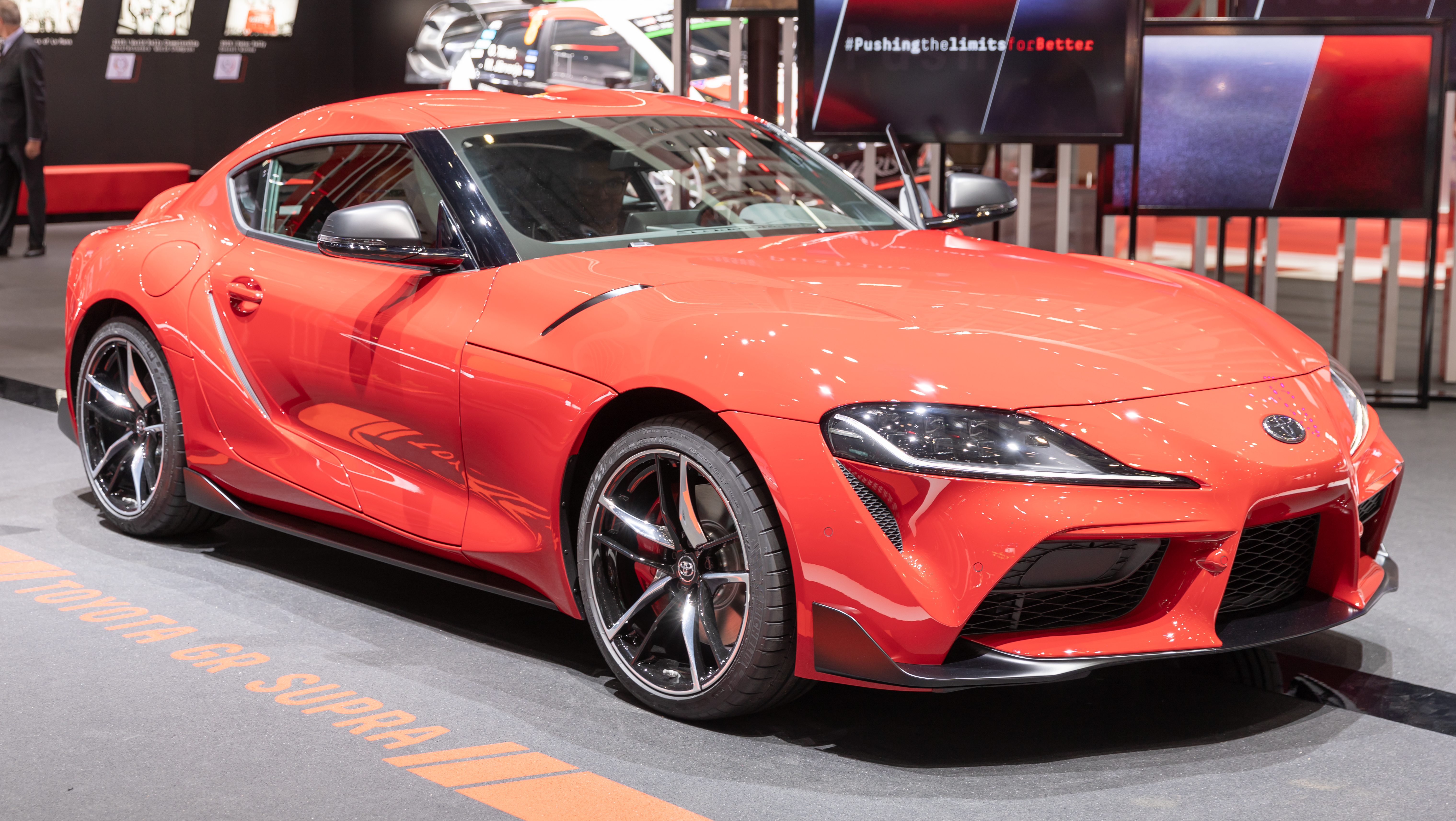 Toyota Supra at Geneva International Motor Show 2019, Le Grand-Saconnex